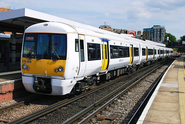 Bombardier (Derby) Class 376 "Electrostar" 750v dc 3rd rail inner-suburban 5-car emu No.376 008 of South Eastern at New Cross on a Charing Cross - Dartford Loop service, 06/10.